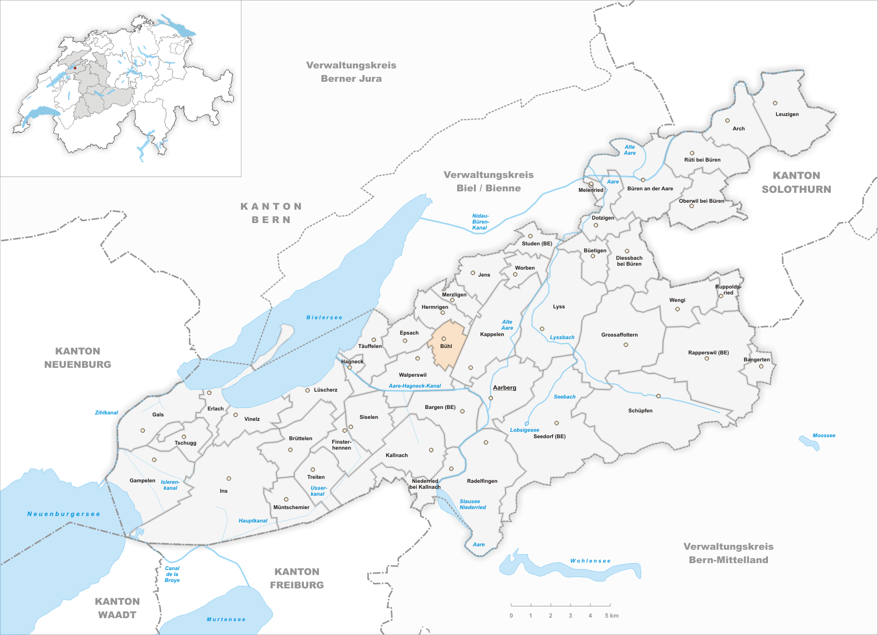 Municipality Bühl